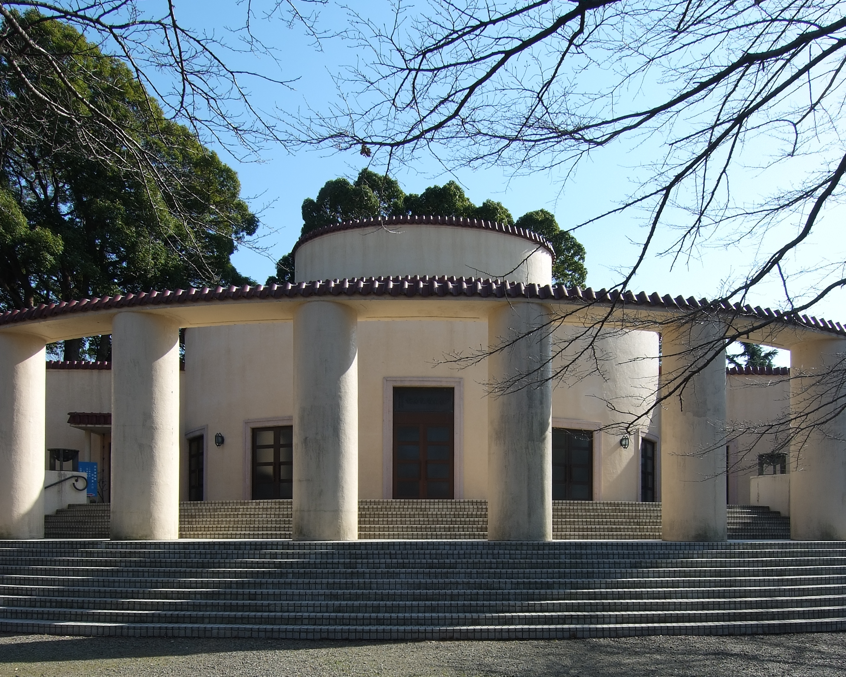 Former Tama Seiseki Memorial Hall, at Tama, Tokyo Japan, design by Yotaro Sekine + Chikatada Kurata in 1930.